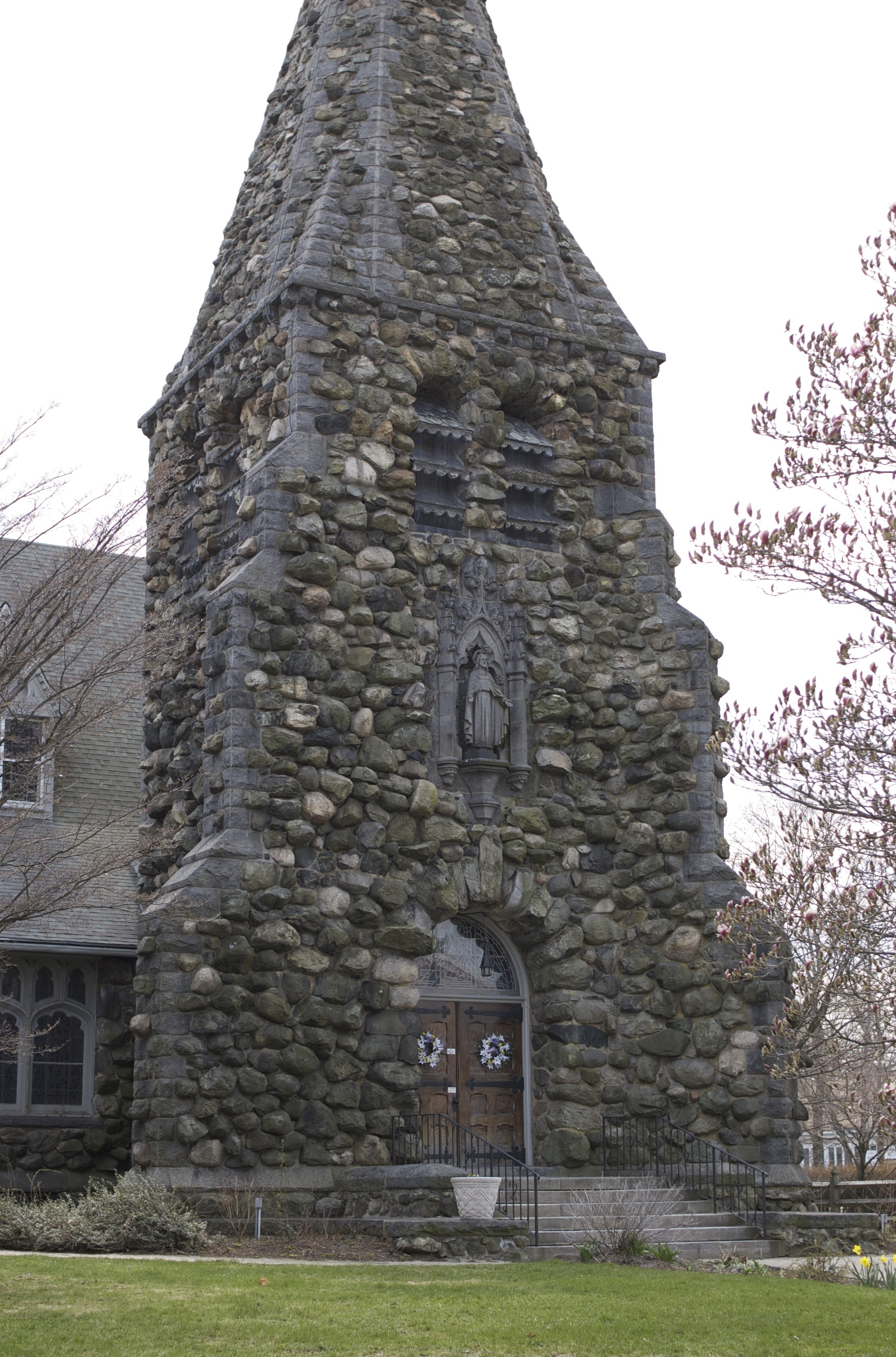 The base of the stone steeple of the Christ Episcopal Church in Waltham, Massachusetts.